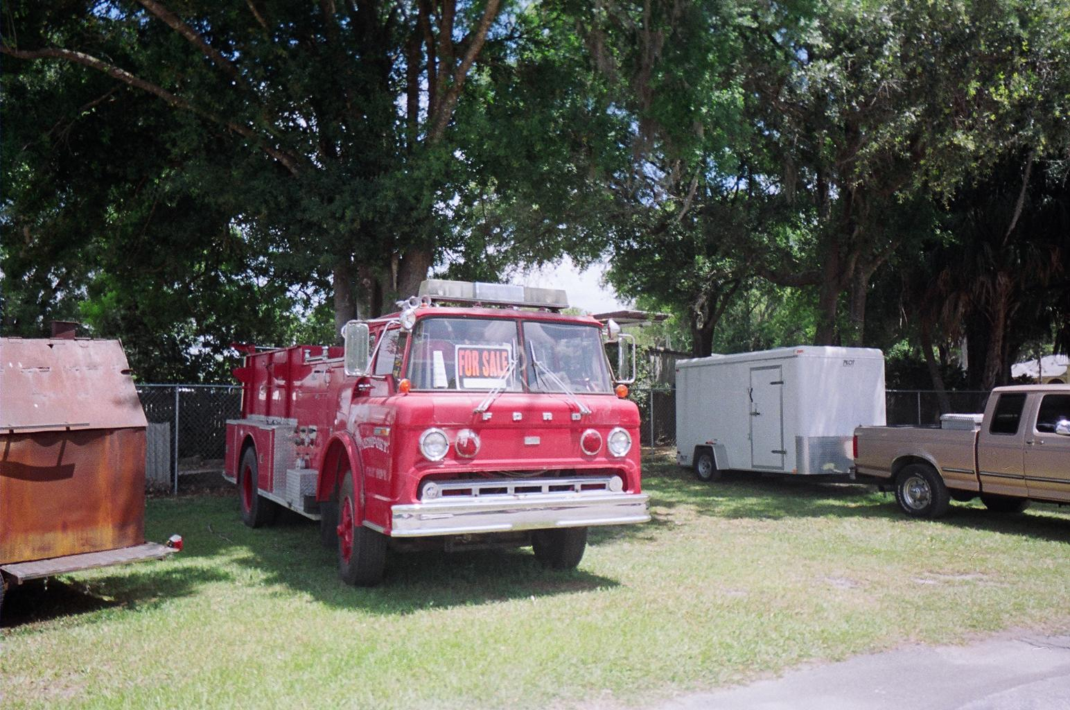 1973 Ford C-900 Fire Truck for sale by a private collector(not me) in Land O' Lakes, Florida. Originally owned by the Newport(State Unknown) Fire Department, and mistakenly labeled an F-900 by the person selling it.